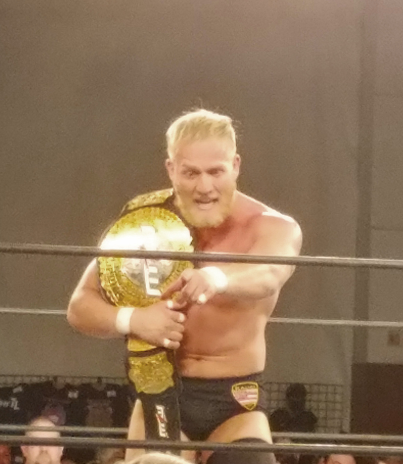 Marshall Von Erich celebrates winning the MLW World Tag Team Titles with his brother Ross Von Erich from The Dynasty (MJF and Richard Holiday) at MLW Saturday Night SuperFight on November 20, 2019 at Cicero Stadium in Cicero, Illinois.